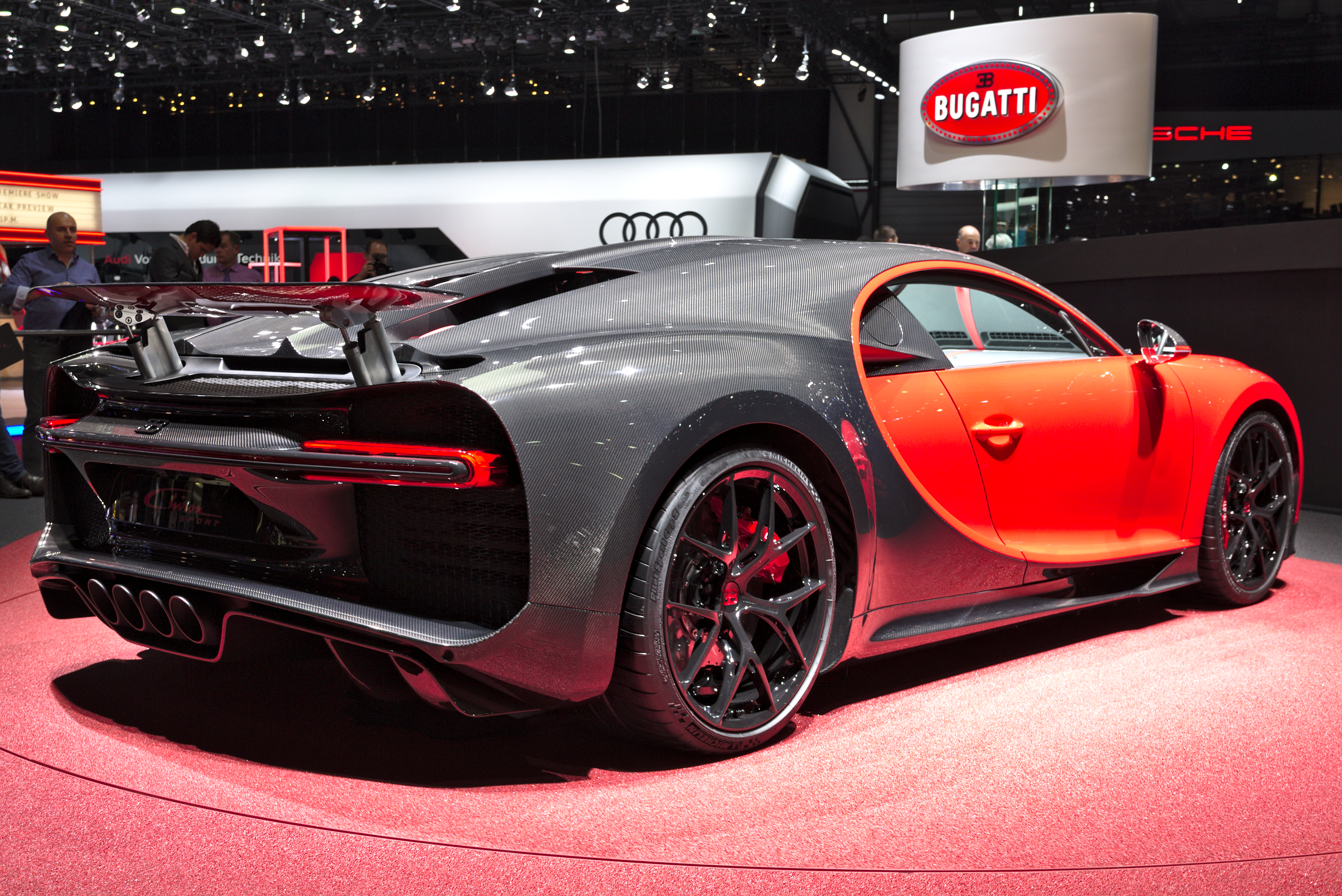 Bugatti Chiron Sport at Geneva Motorshow 2018